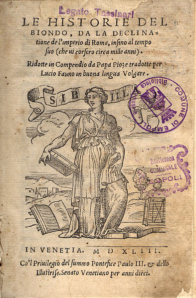 Le Historie del Biondo da la declinatione de l'imperio di Roma, infino al tempo suo (che vi corsero circa milla anni). Ridotte in Compendio da Papa Pio; e tradotte per Lucio Fauno in buona lingua Volgare, 1543